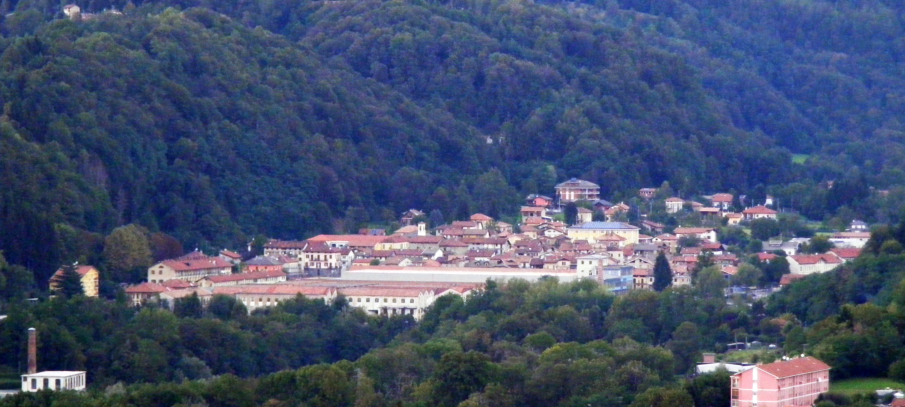 Miagliano (BI, Italy): panorama fron Colma-Randolina footpath